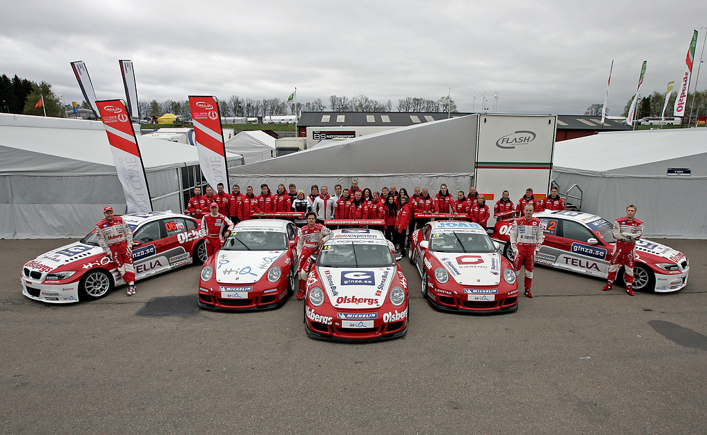 Flash Engineering 2010